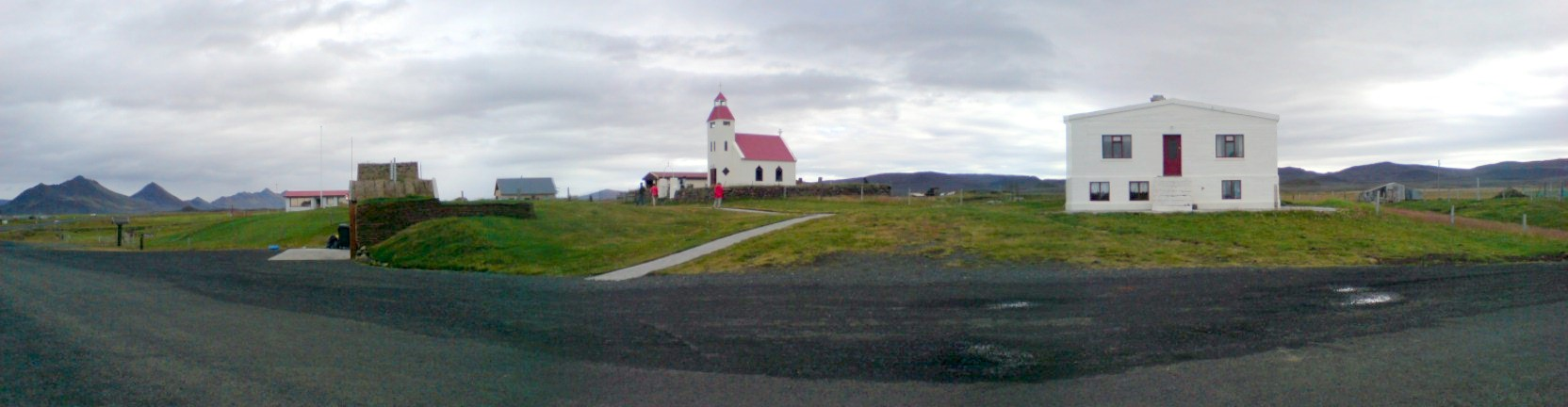 Möðrudalur panorama